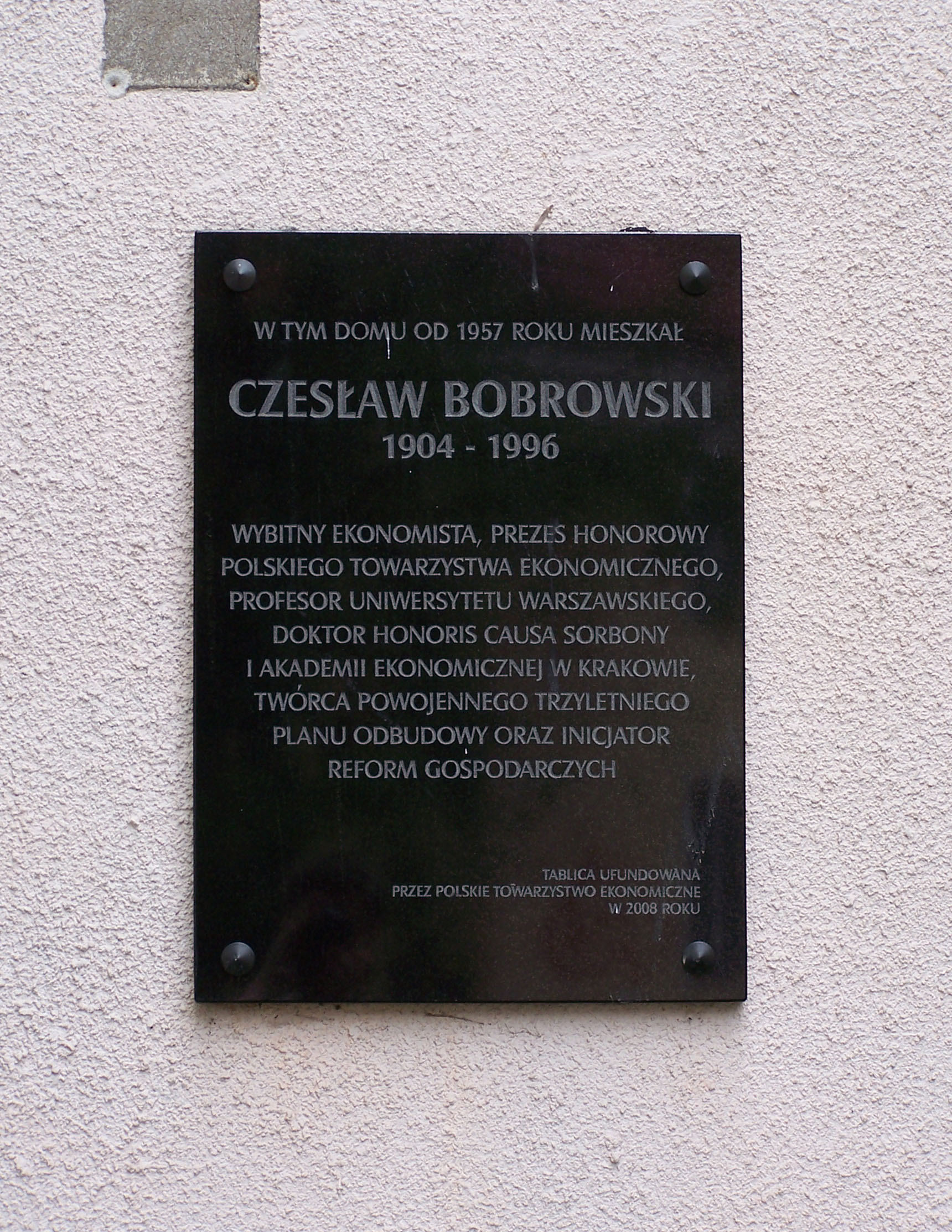 Memorial plaque to economist Czesław Bobrowski at 36 Śmiała Street on the house where he lived in Warsaw, Poland